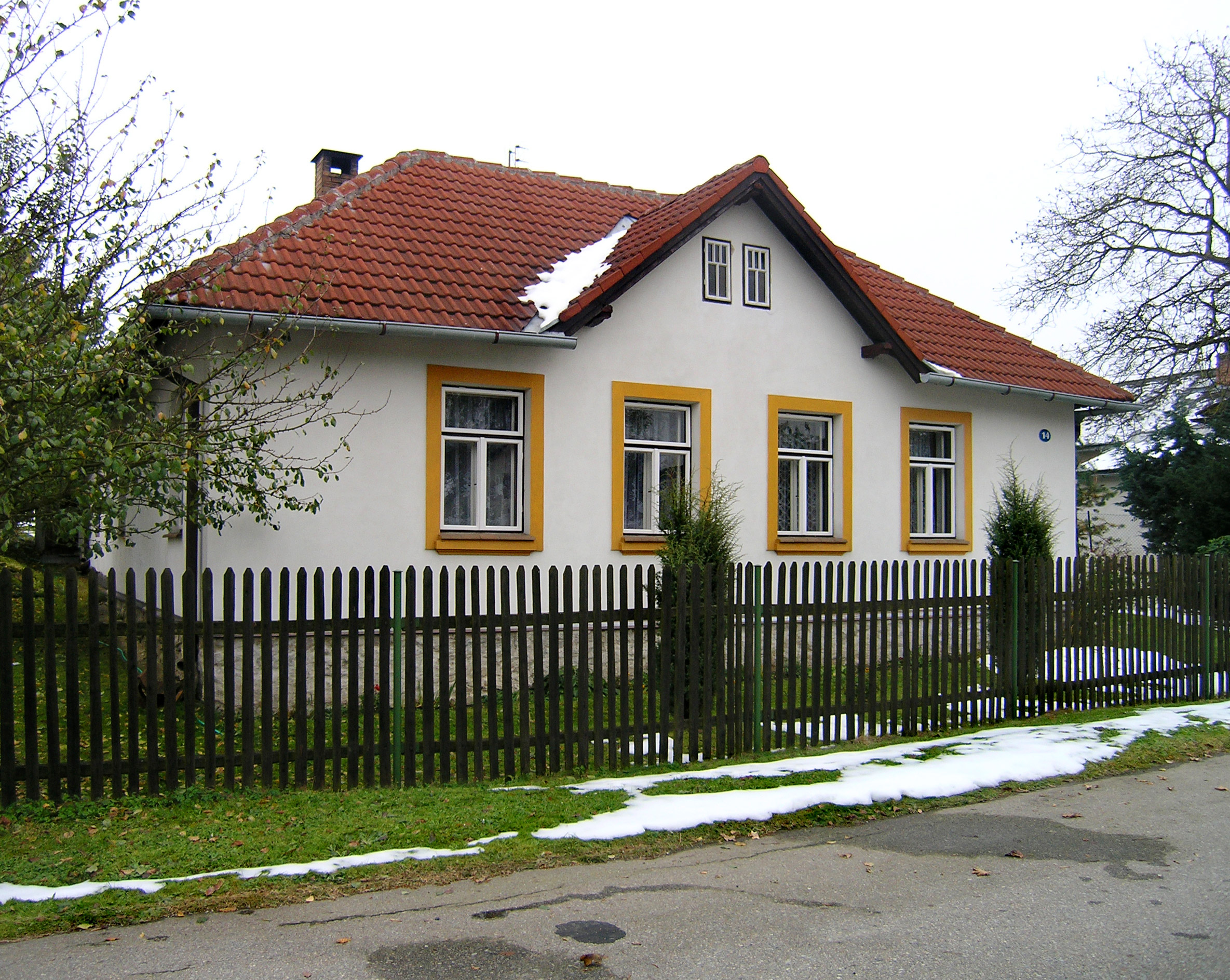 North part of Komorovice village, Czech Republic